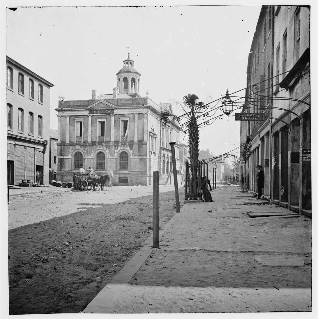 View of the Post Office in Charleston, South Carolina, on East Bay Street, showing the only palmetto tree left in the city, 1865. Glass wet collodion negative. The Library of Congress, Washington, D. C.